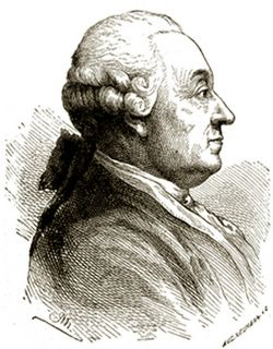 Johann Caspar Goethe